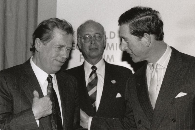 World Economic Forum Annual Meeting 1992 - Václav Havel, Klaus Schwab, HRH The Prince of Wales.